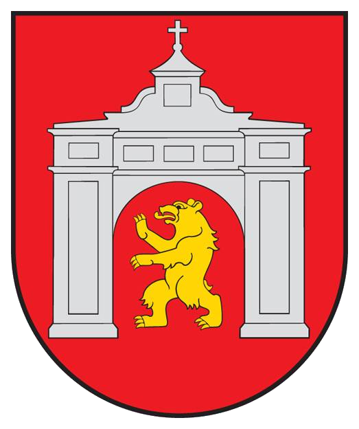 Coat of arms of Viduklė (Lithuania)